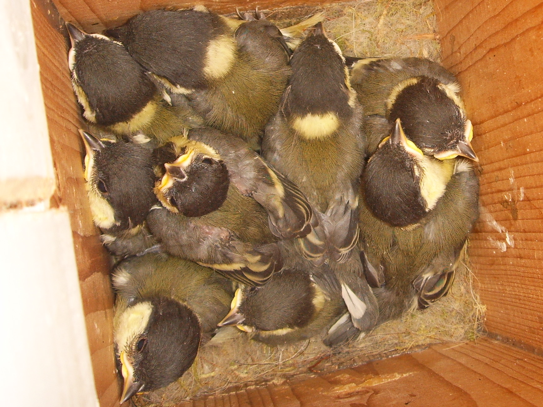 baby bird's nest